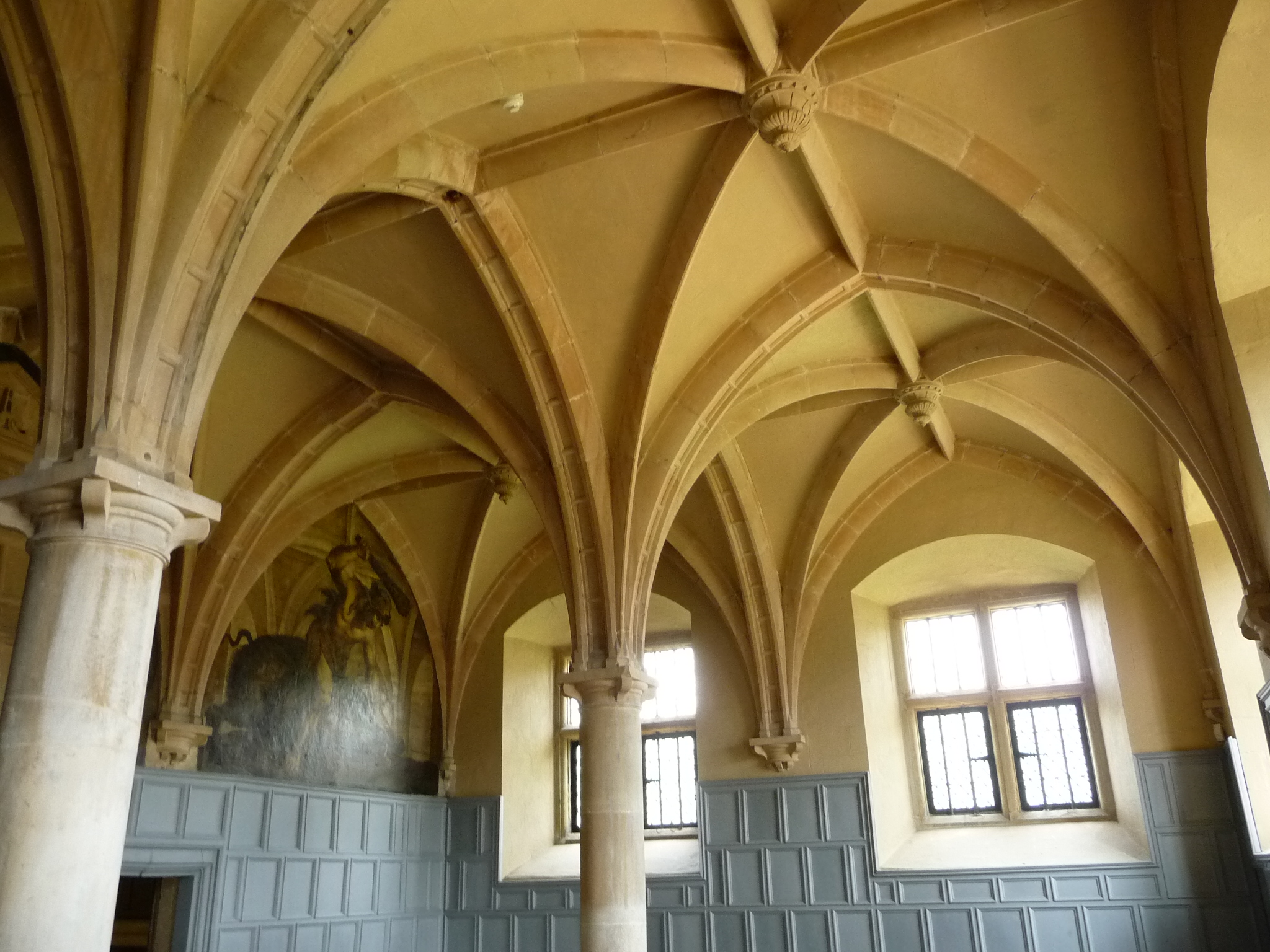 Bolsover Castle in Derbyshire, England was founded in the 12th century by the Peverel family and became Crown property in 1155.